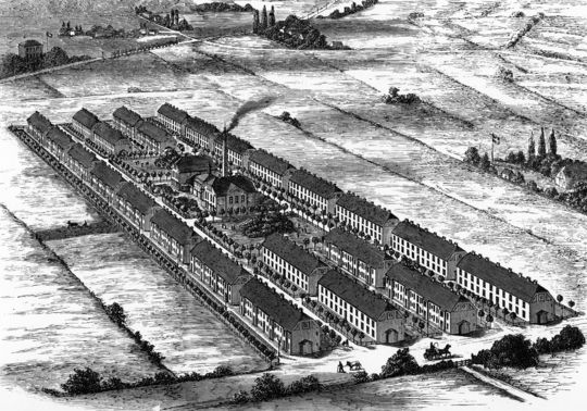 An image of the De Classenske Boliger development in the Frederiksberg district of Copenhagen, Denmark